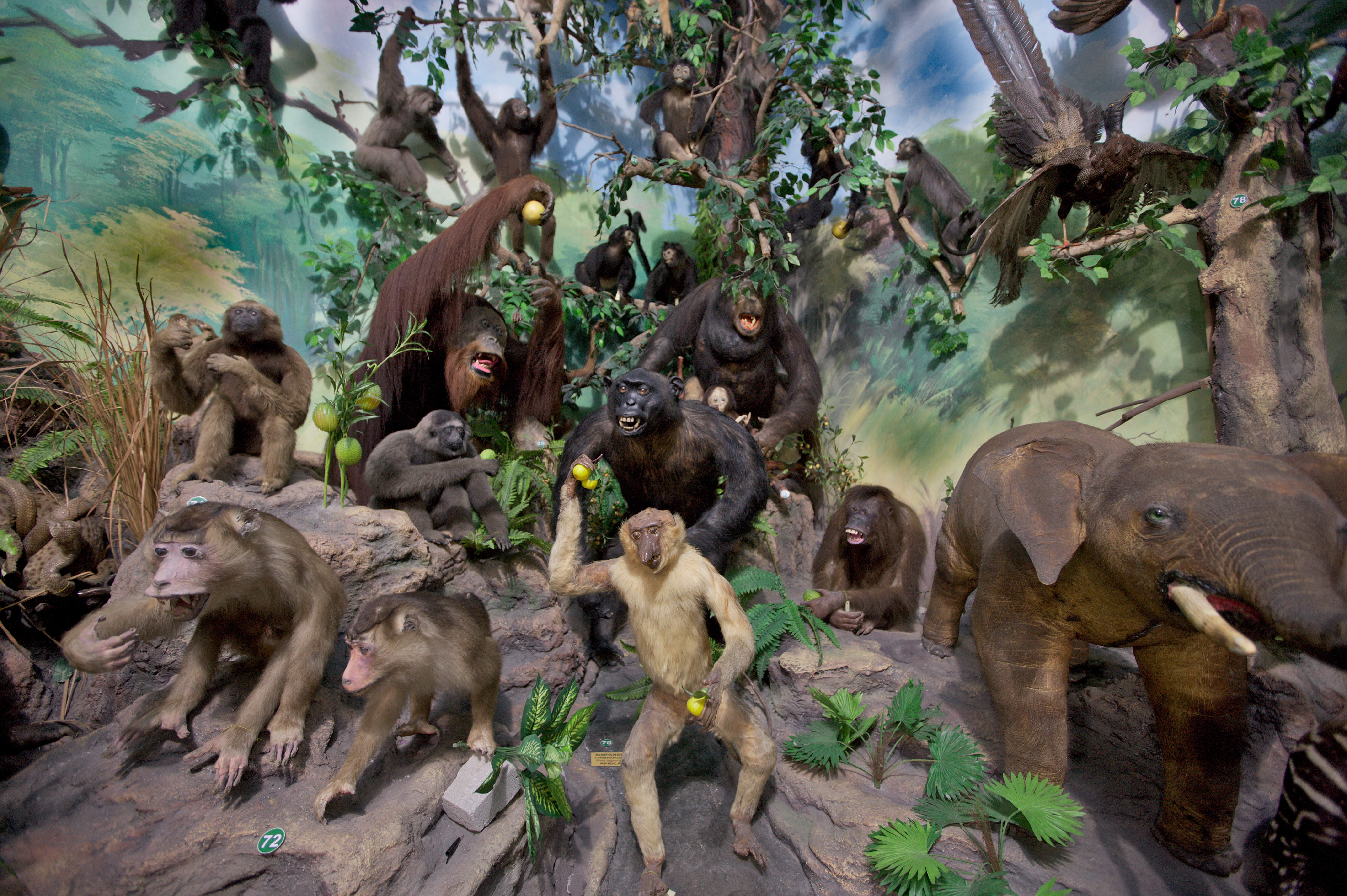 A random selection of taxidermy from a primate section of the Rahmat International Wildlife Museum and Gallery in Medan, North Sumatra, Sumatra, Indonesia.